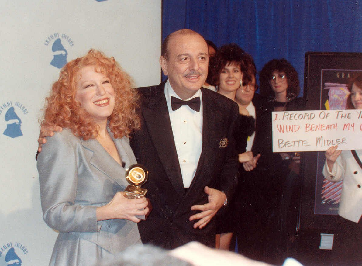 Bette Midler and Arif Mardin at the Grammy Awards, February, 1990